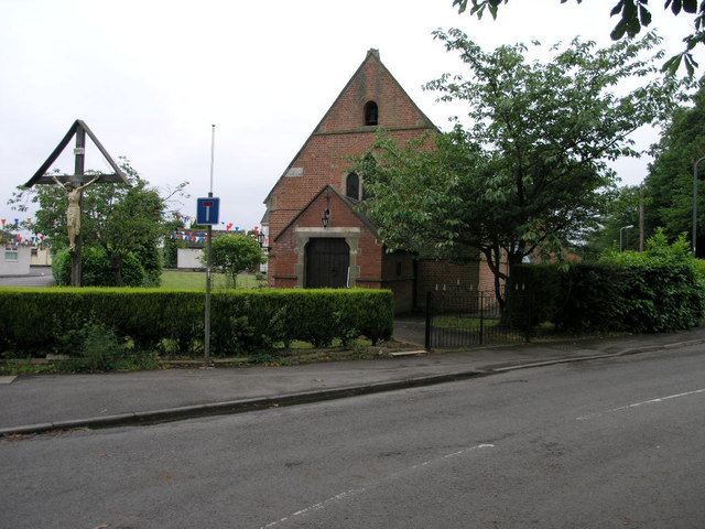 Roman Catholic church of Our Lady of the Sacred Heart, Weston in Arden, Bulkington, Warwickshire, seen from the east